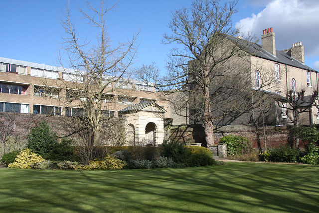 Grounds of Sidney Sussex College In the summer, this garden which backs on to Jesus Lane, is converted into a tennis court.